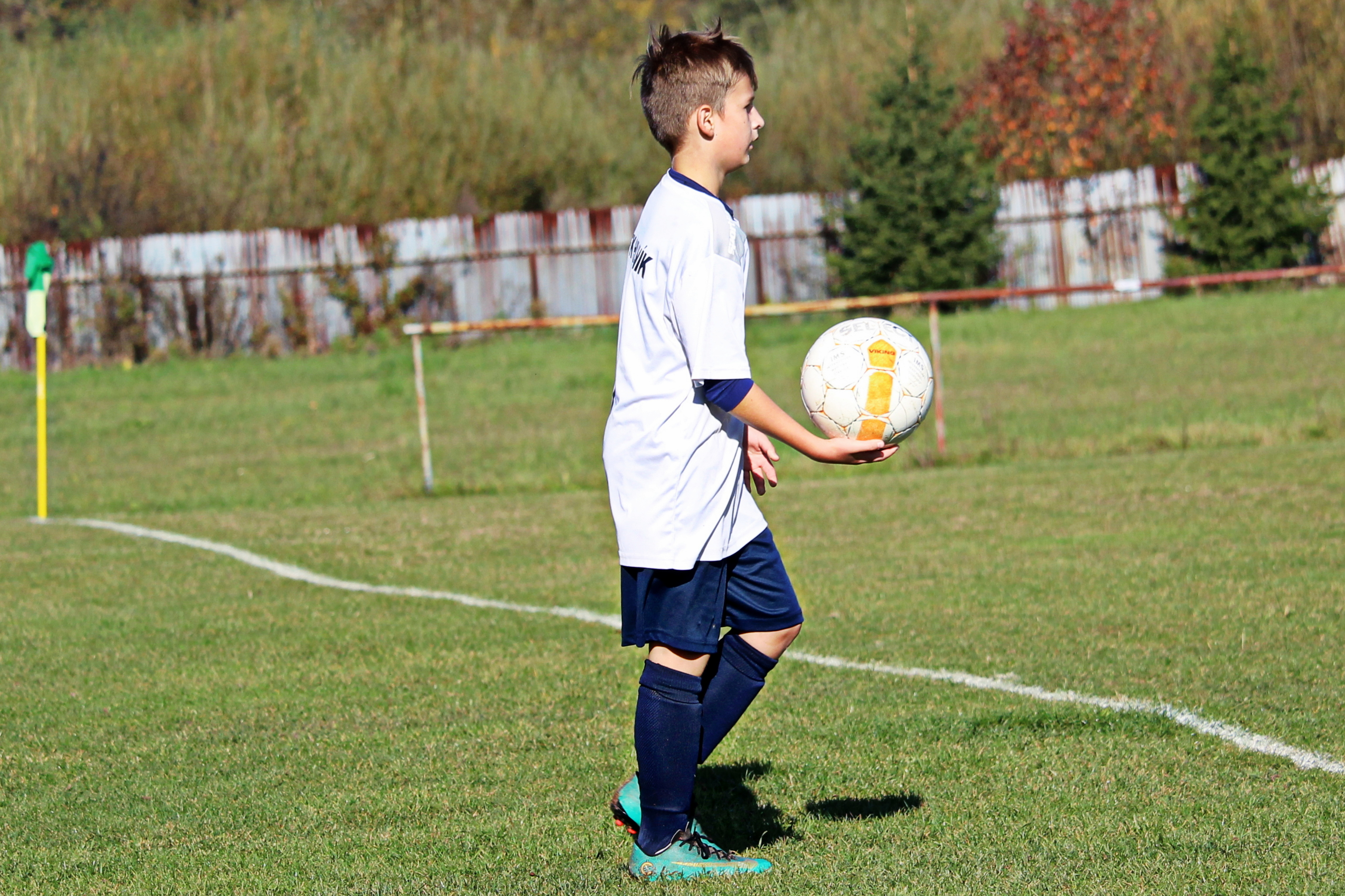 Football player before throw ball. Photo from fotball match category U15 between TJ Zbyňov and FK Hlník